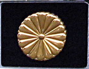 NISSAN PRINCE ROYAL